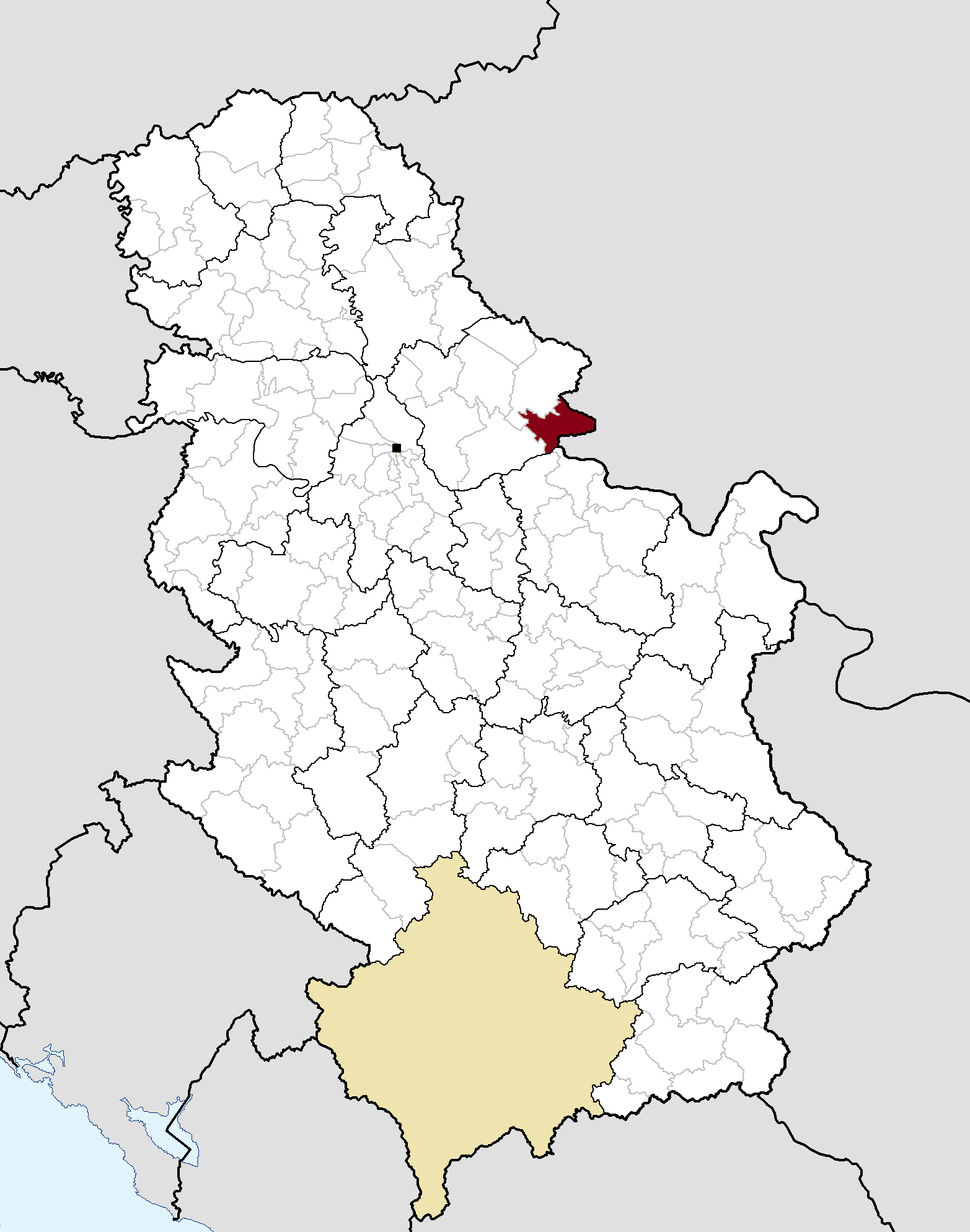 Municipal location in Serbia